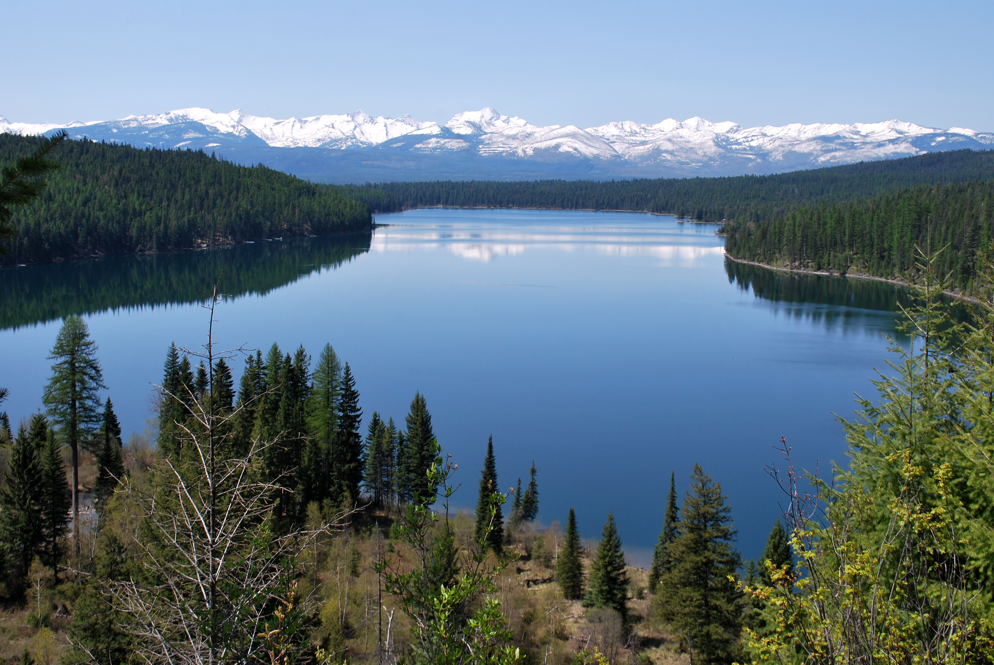 Holland Lake is sits at the base of the Swan Mountains about 25 miles north of Seeley Lake, Montana. The area offers camping, hiking, swimming, and boating.